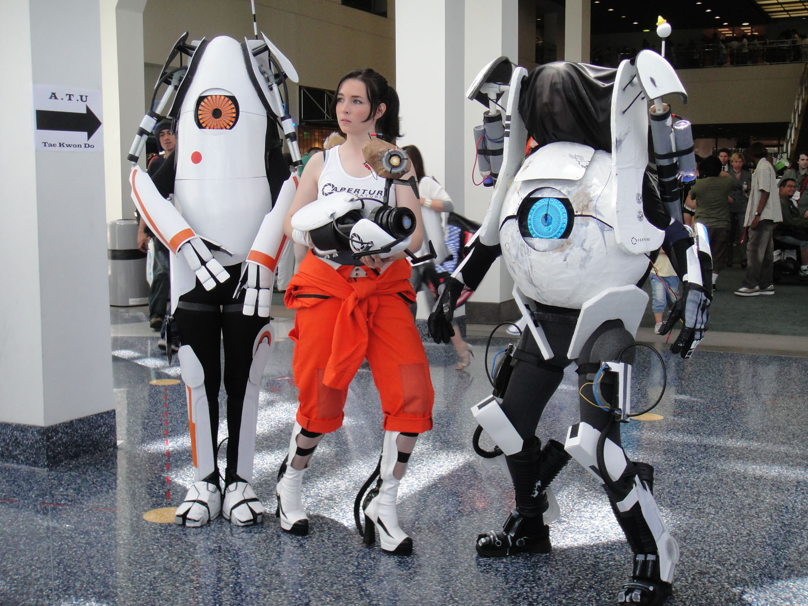 photo 2011 taken by Doug Kline If you're interested in higher resolution versions of my images, contact me via my profile page.